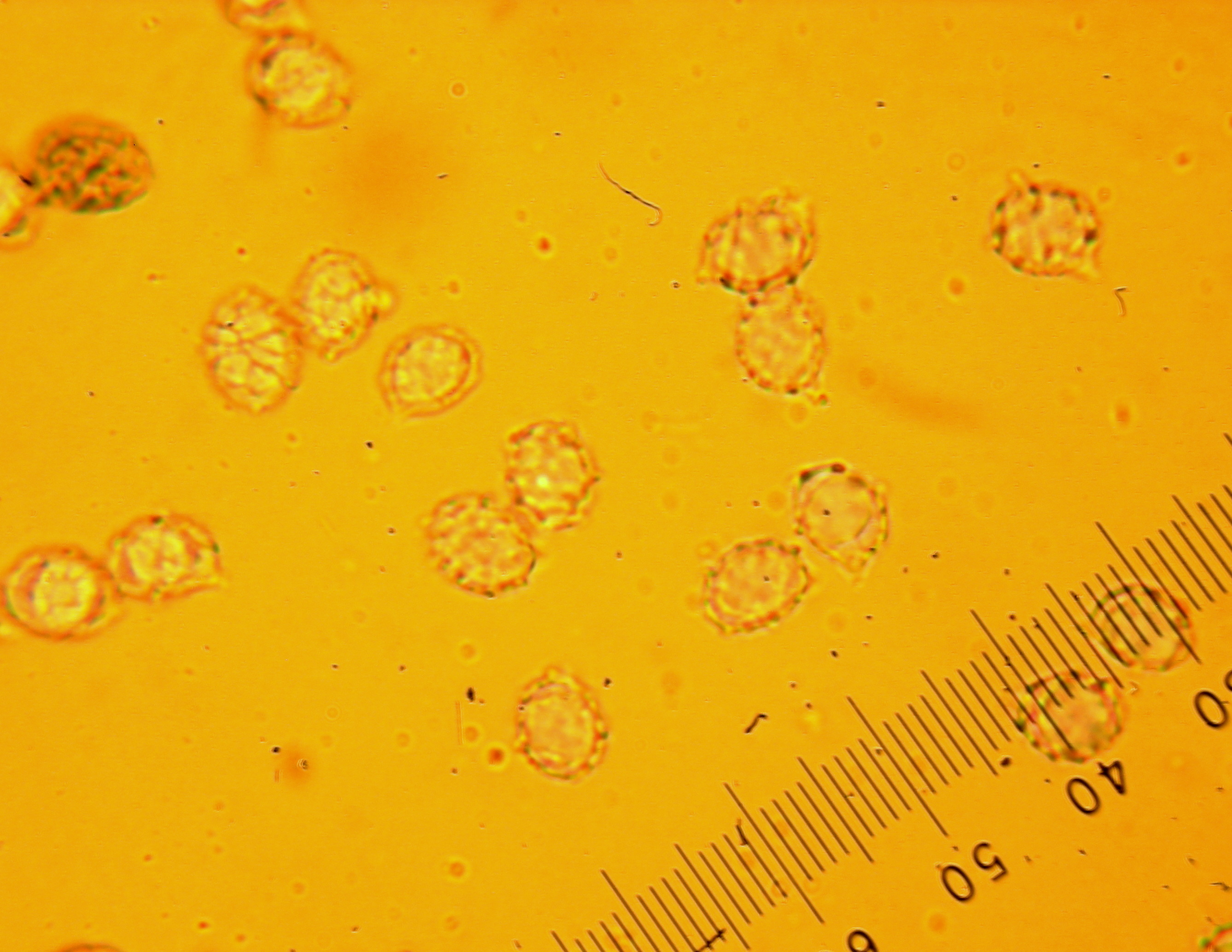 Lactarius turpis (Weinm.) Fr. Image location: Larkspur, California, USA Growing under planted Birch. Caps up to 9.5 cm across and sl. tacky. Latex white staining the gills brownish. Taste was latently acrid. Spore print was creamy. Spores were ~ 7.0 X 5.9 microns. Looks to be a good ID but my spore measurements are somewhat smaller than what I found in Phillip’s book. Used references: Reliable amateur mycologists. For more information about this, see the observation page at Mushroom Observer.